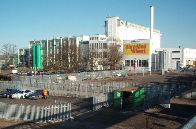 The "Shredded Wheat" factory, Welwyn Garden City. This famous landmark on the main railway line to the north will cease production over the next year and will then be demolished.